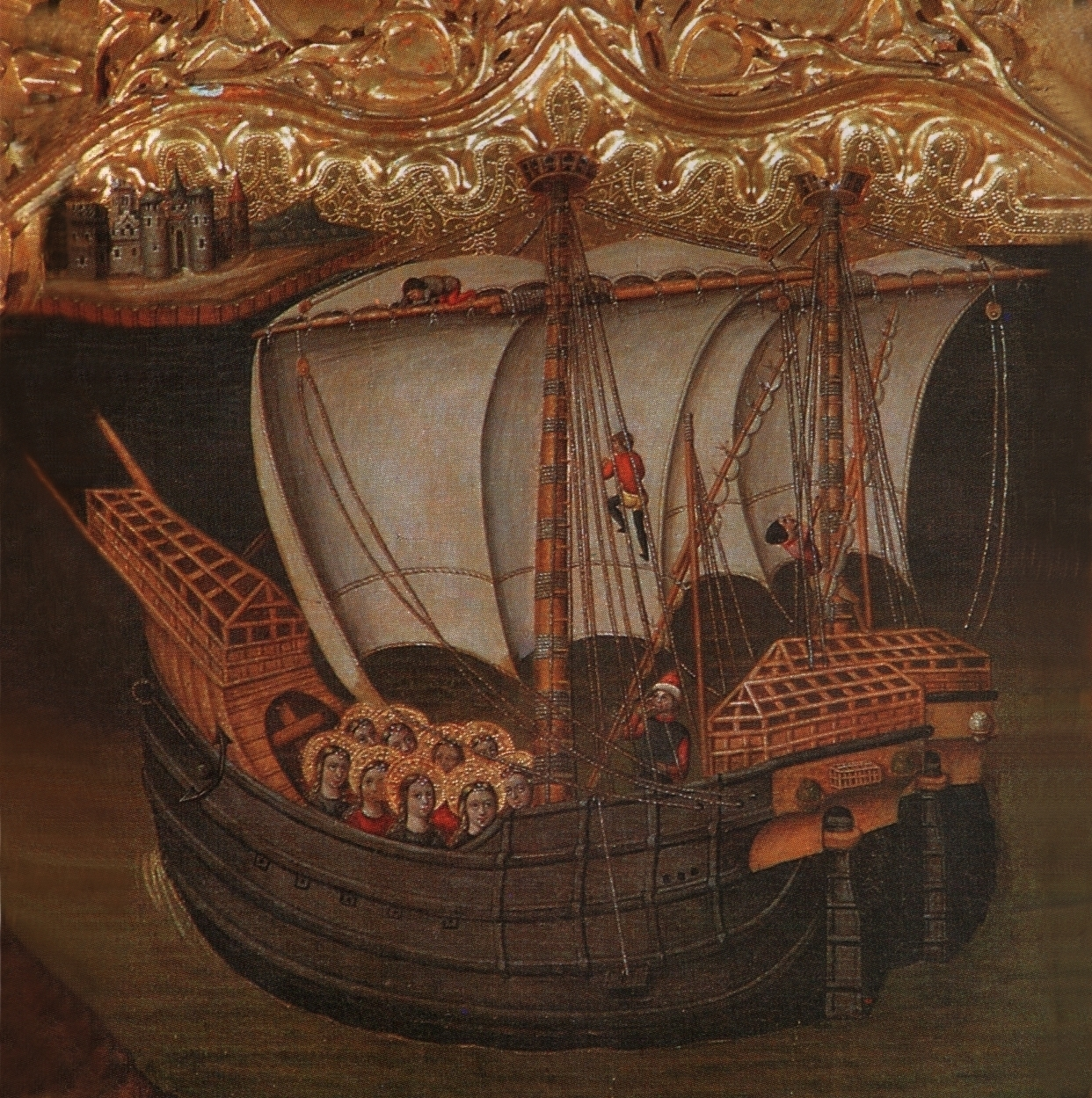 two catalan cogs at a Harbour, side by side, showing stern rudders, first half of s.XIV. Altarpiece of Sta.Ursula - Cubells curch, and later Poblet church (author Joan Reixach)